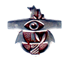 the badge of the israel navy's radar system operator